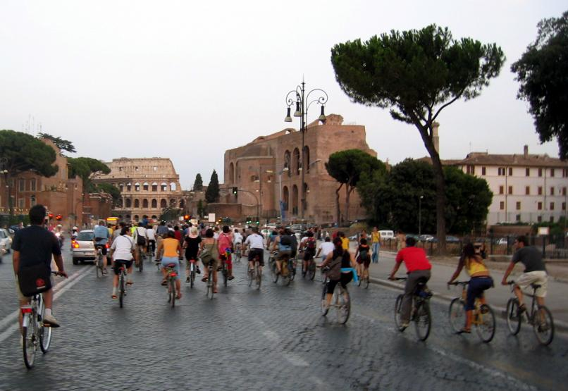 Critical Mass, Rome, 29th July, 2005